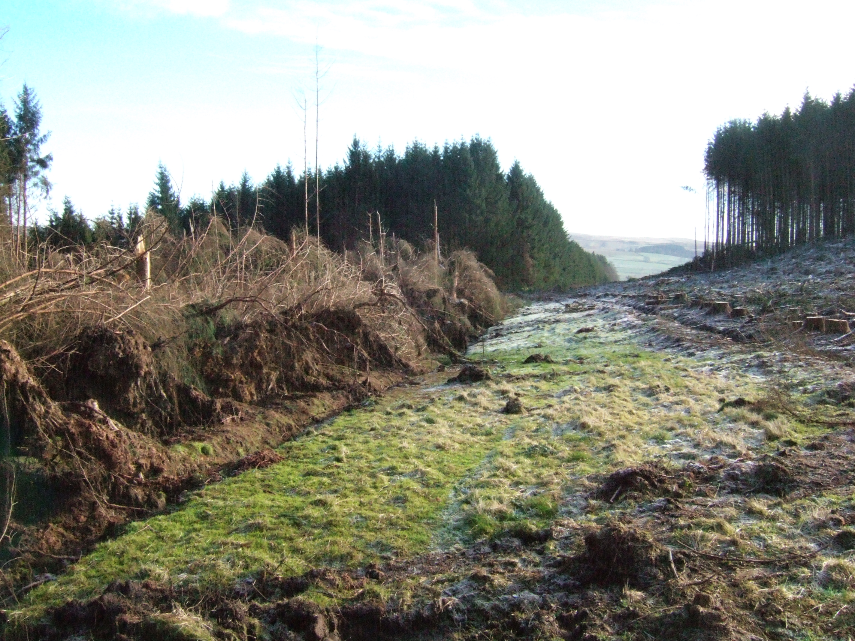 I took this photograph and I release it into the public domainThe Boy that time forgot 18:18, 3 February 2007 (UTC).